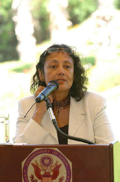 Bharati Mukherjee, Professor of English at the University of California at Berkeley. Speaking at the residence of US Ambassador Daniel C. Kurtzer in Israel